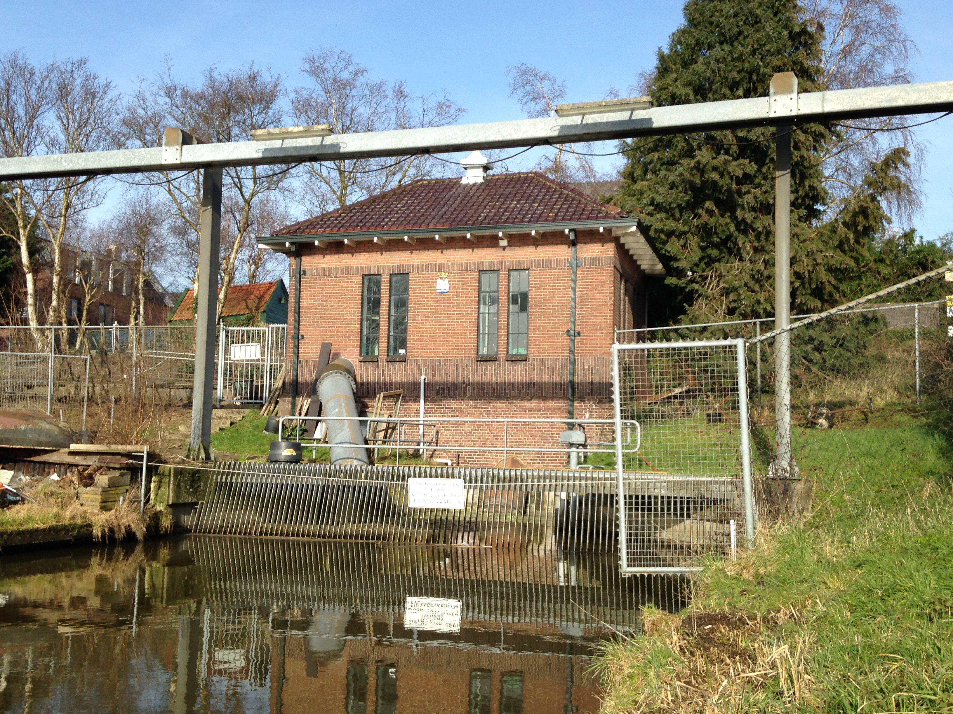 Pumping station at 2a Machineweg, Aalsmeer, the Netherlands, seen from the southeast. This is a municipal monument registered under number 0358/WN012.